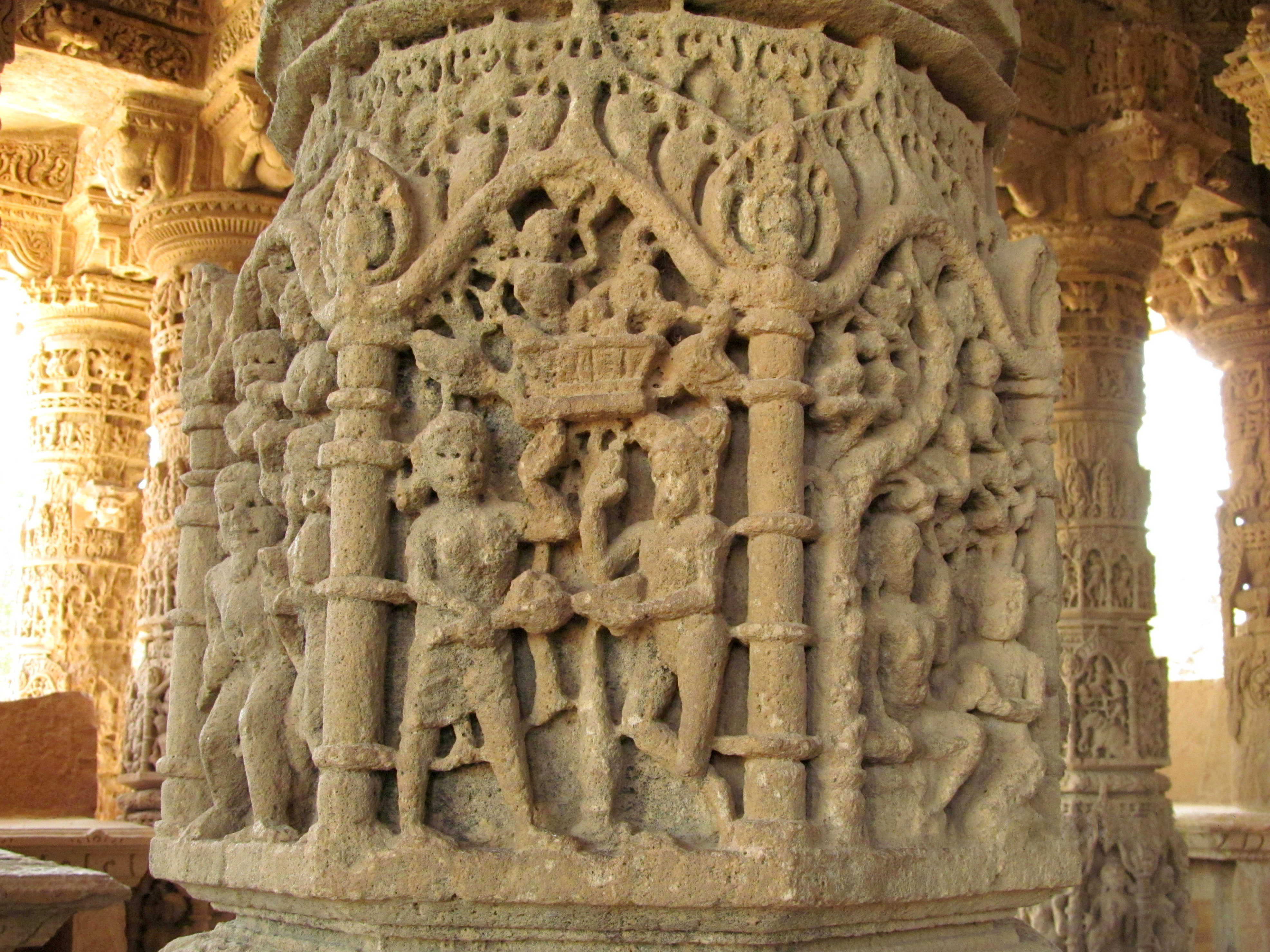 One of mythological scenes carved on the pillars of Sun Temple at Modhera. appears to be Sita abduction scene from Ramayana. Notice Pushpak viman and Jatayu the bird.